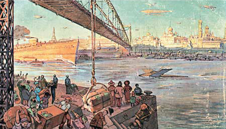 Moscow in XXIII Century. Moscow River Oceanic Port. . Russian Empire postcard, Einem Factory, 1914, Moscow.